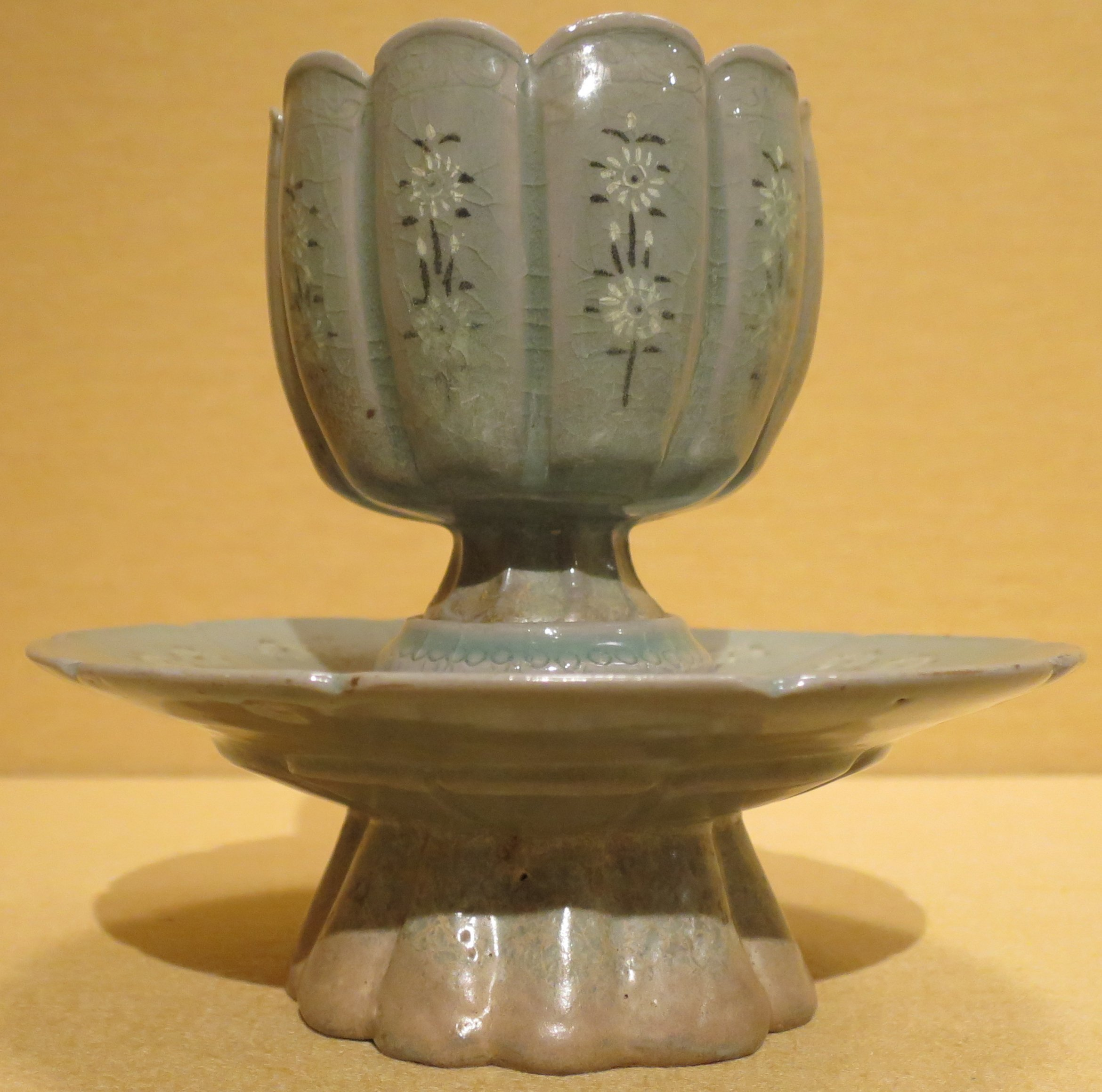 Cup and cup stand with chrysanthemum design from Korea, Koryo, 13th century, stoneware with celadon glaze and black and white slip inlay, Honolulu Museum of Art, accessions 65 & 66